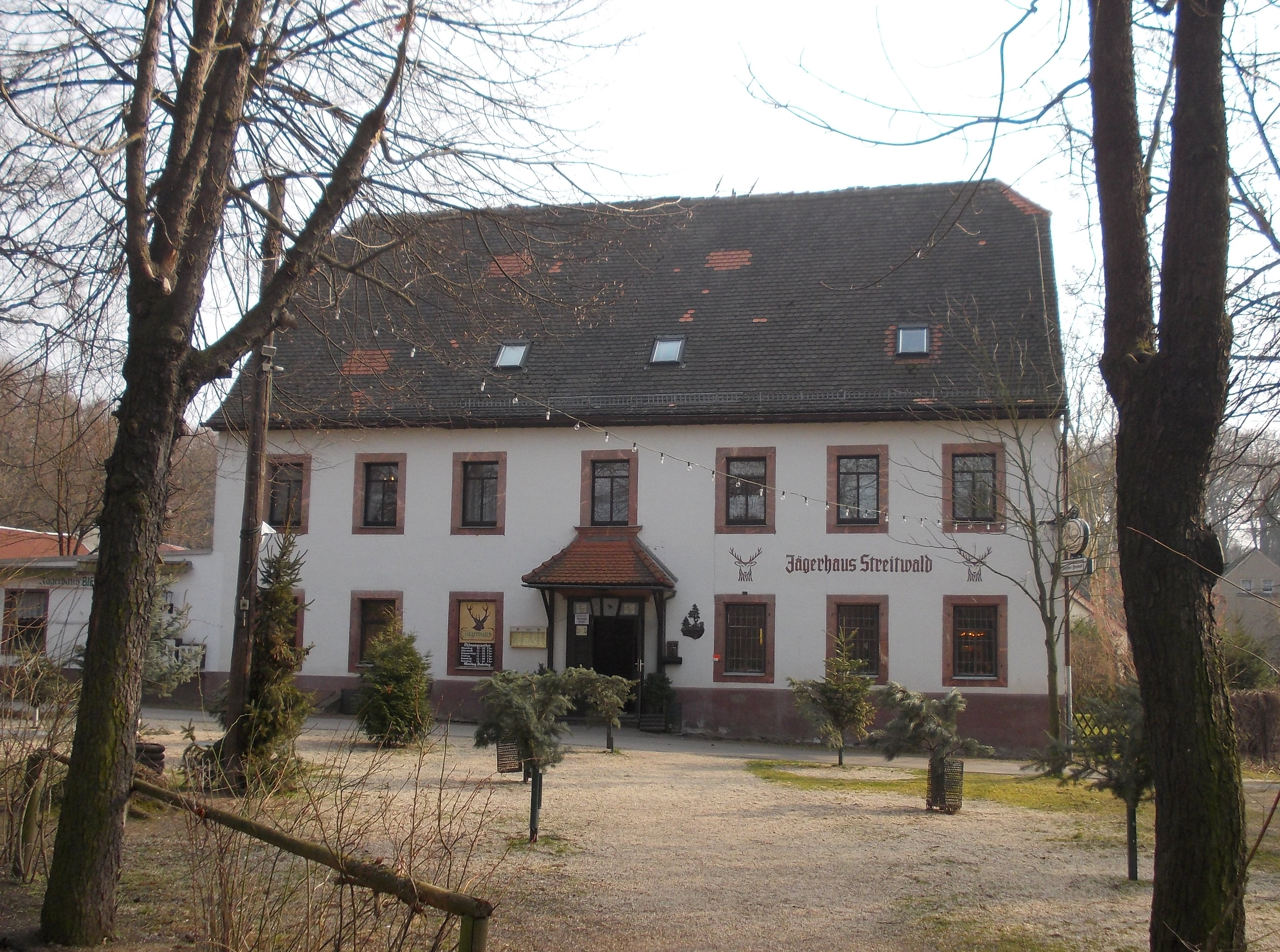 Jägerhaus restaurant in Streitwald (Frohburg, Leipzig district, Saxony)